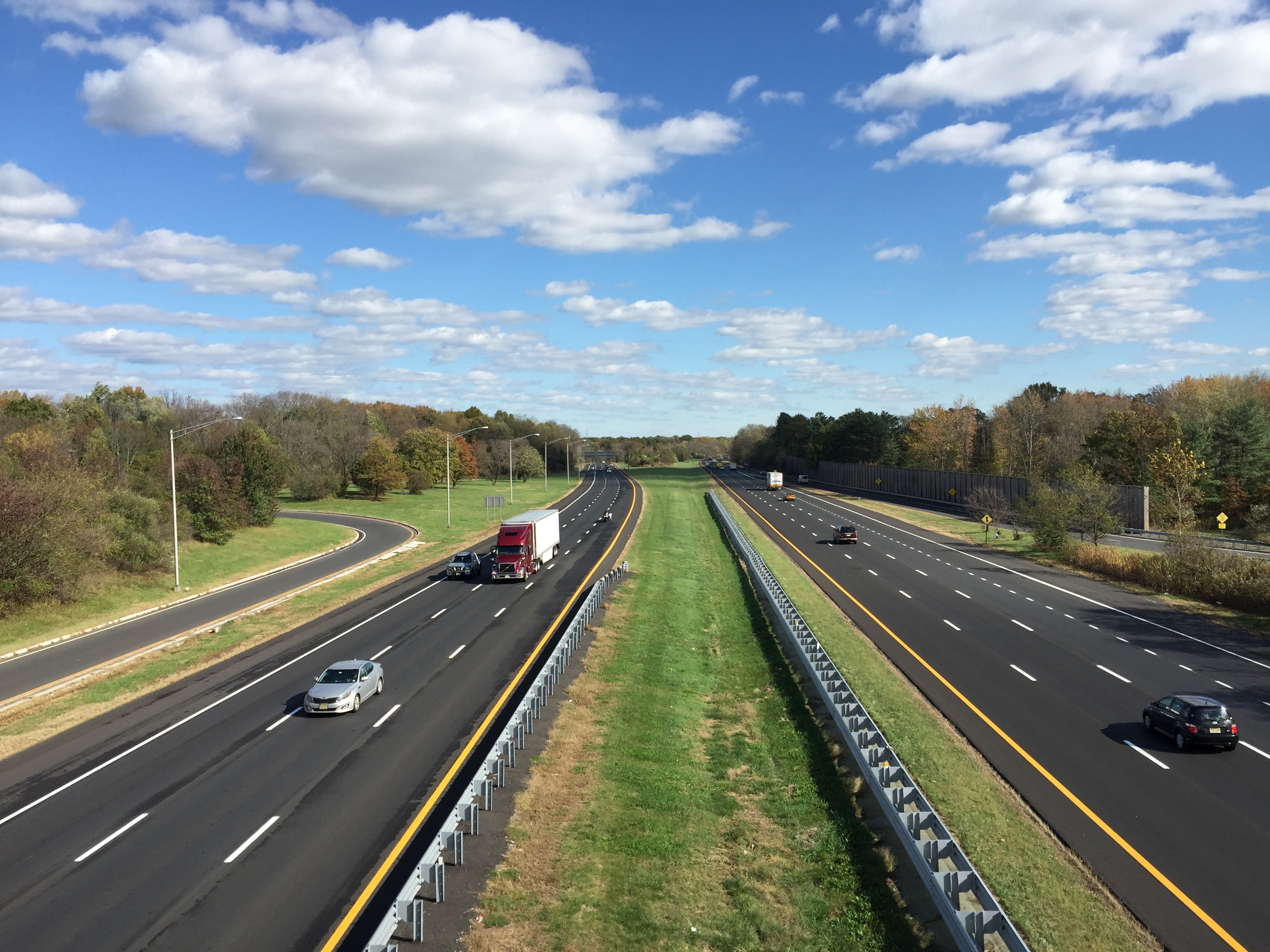 View north along Interstate 95 from the overpass for New Jersey State Route 31 (Pennington Road) in Hopewell Township, Mercer County, New Jersey